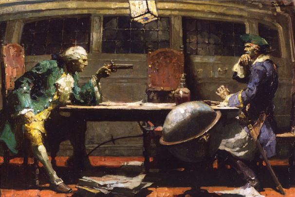 "STEDE BONNET TAKES AIM". 1920, oil on canvas. 24 1/2" x 37 1/2", signed upper right. Illustration for The Black Buccaneer, by Stephen Meader Harcourt, Brace & Co., fp. 112, 1920. "I shall count three, then fire"